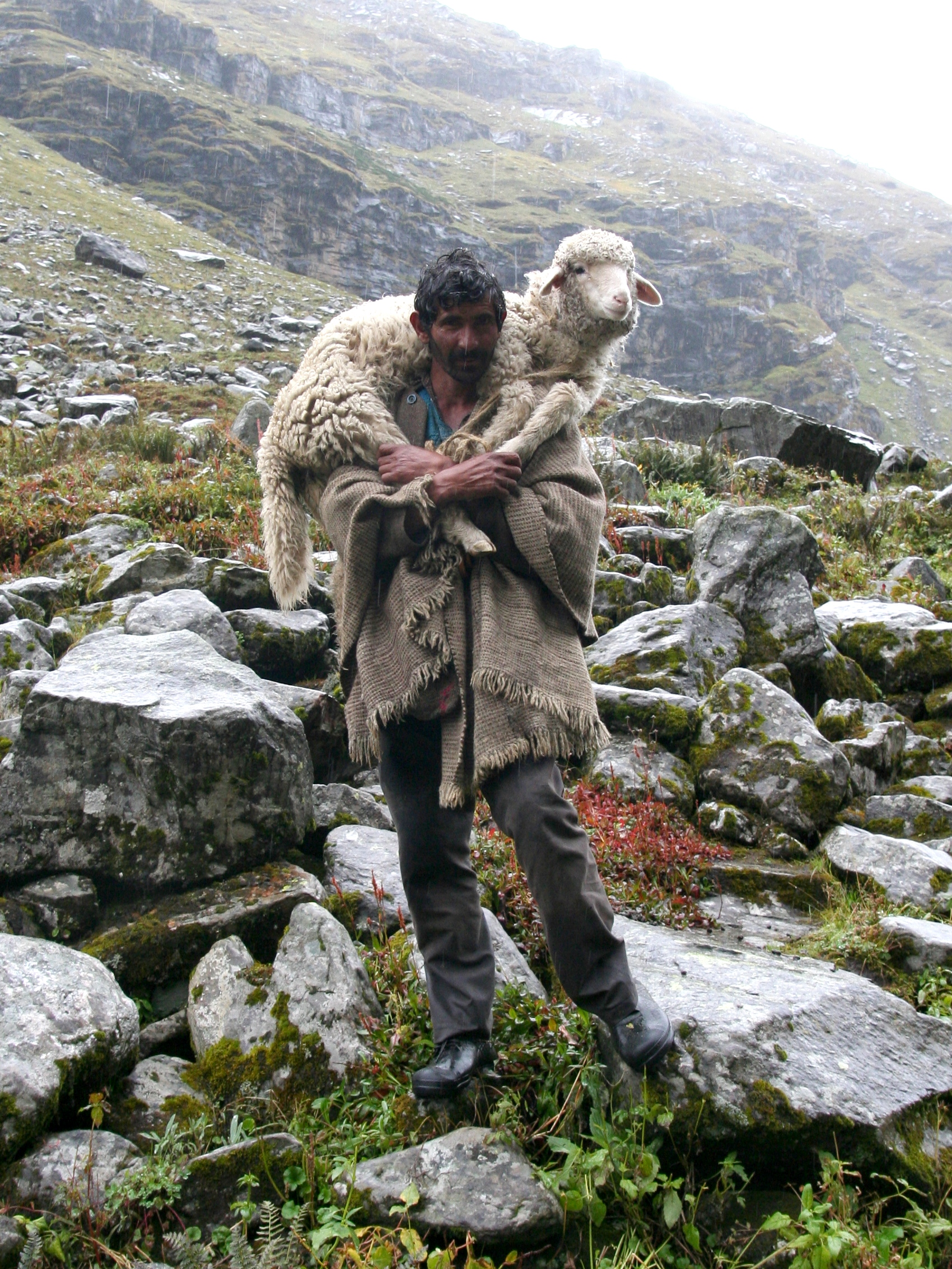 A shepherd and his sheep on the way to Hampta Pass in the Indian Himalayas of Himachal Pradesh.